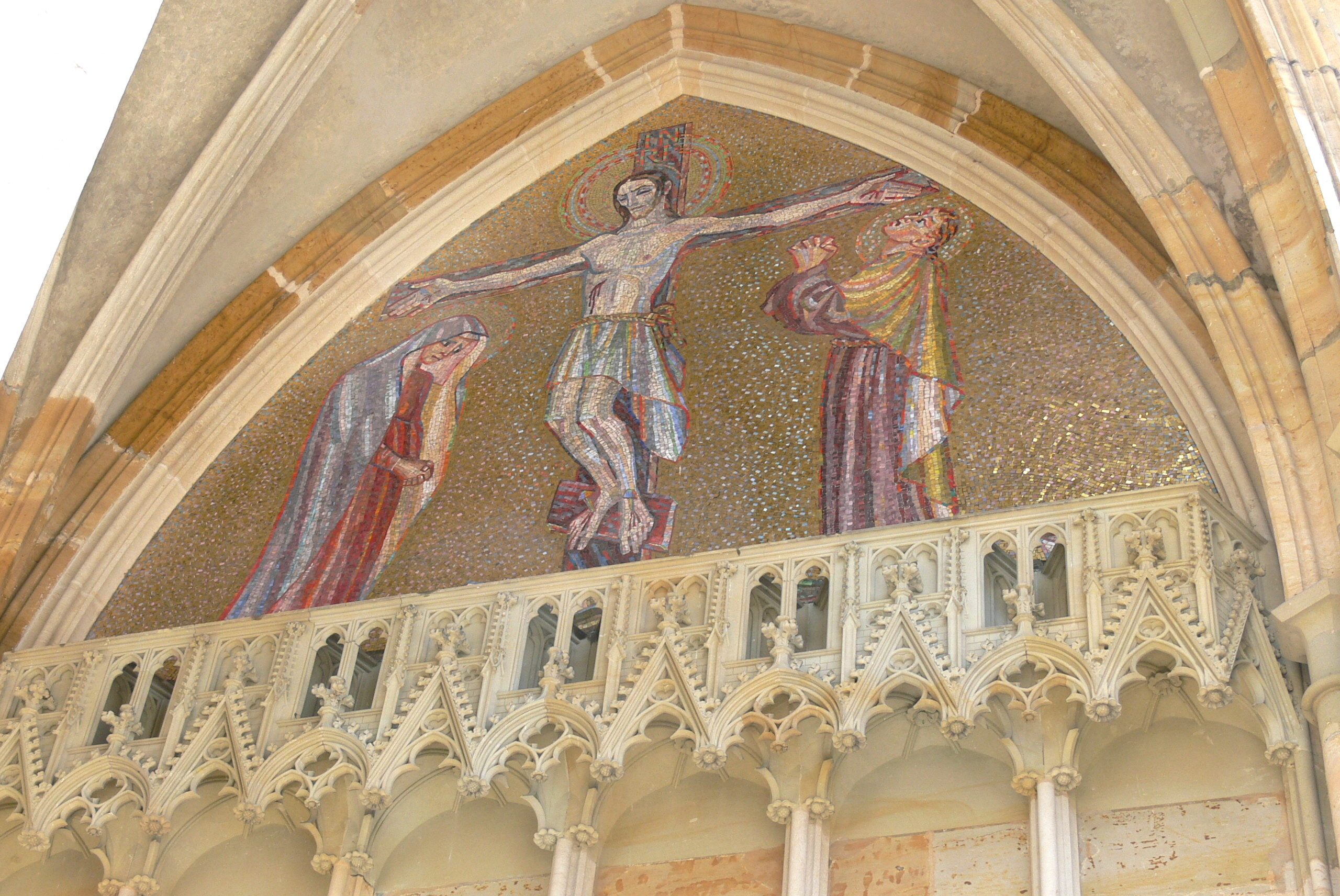 St. Vitus Cathedral ( Prague castle ). Crucifixion mosaic at the Golden Gate.